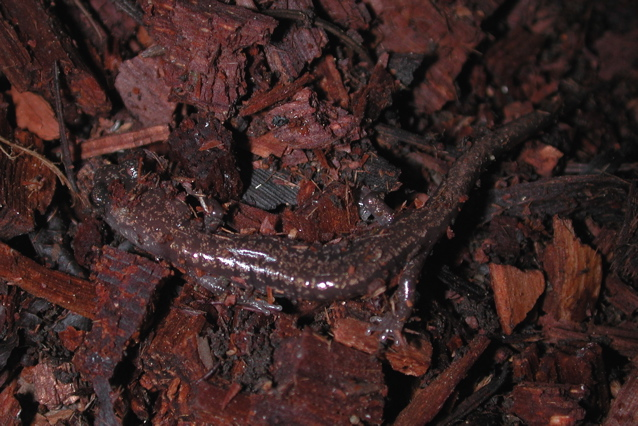 Aneides hardii from the "sky island" mountains of Arizona and New Mexico.